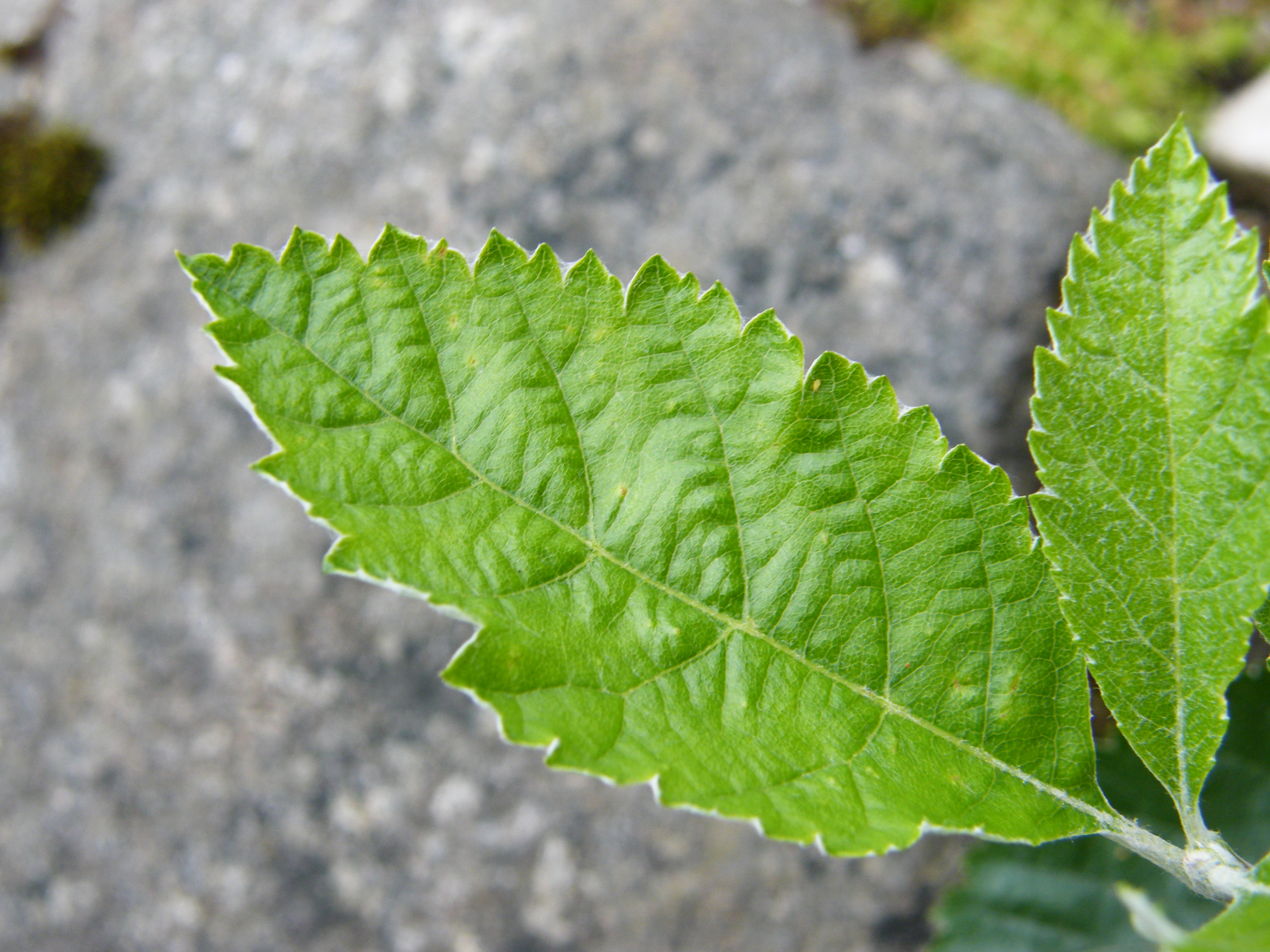 Photograph #2 of the top of the leaf of a Rock Whitebeam